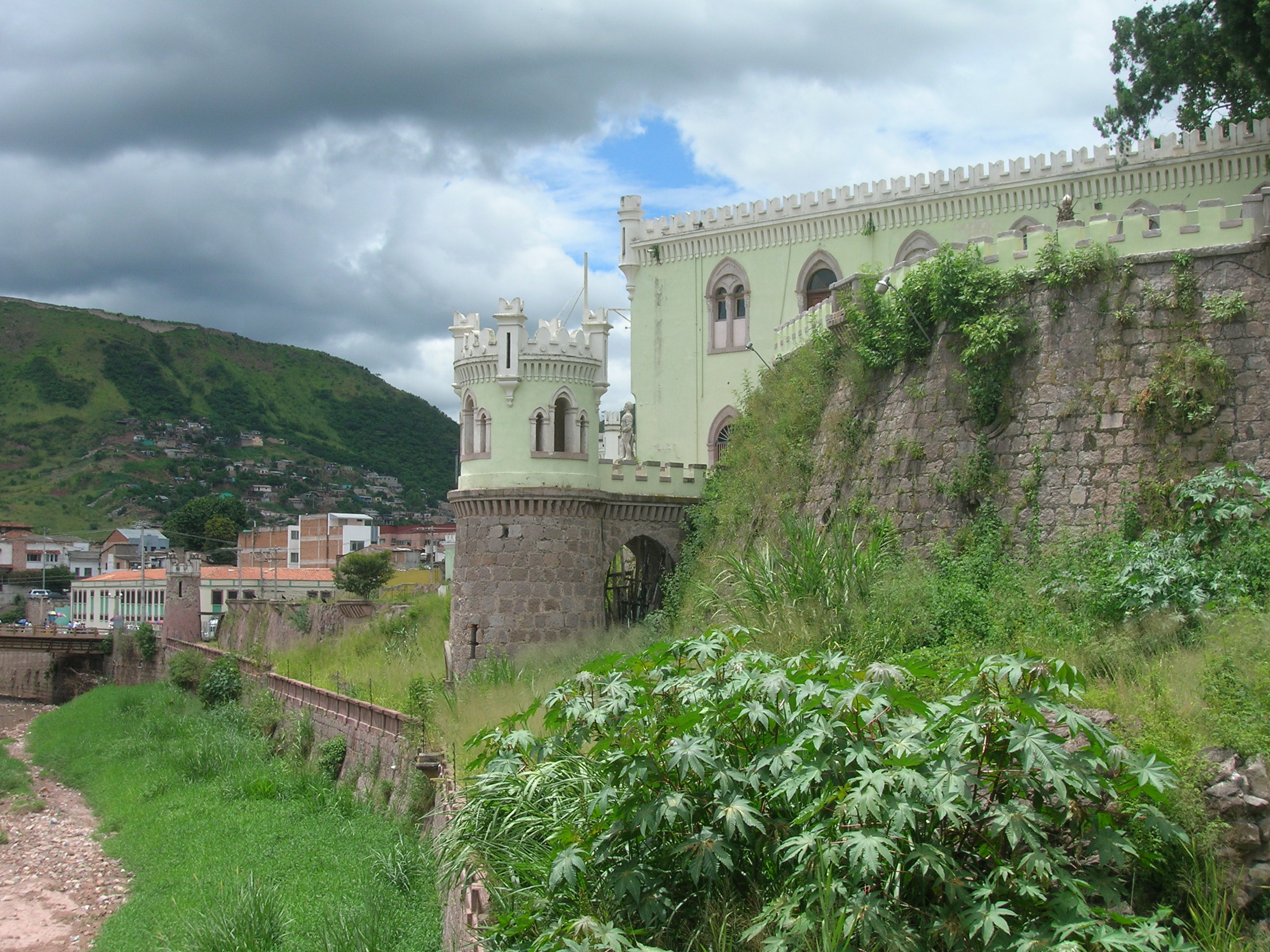 Nothing says Central America like a lime green castle